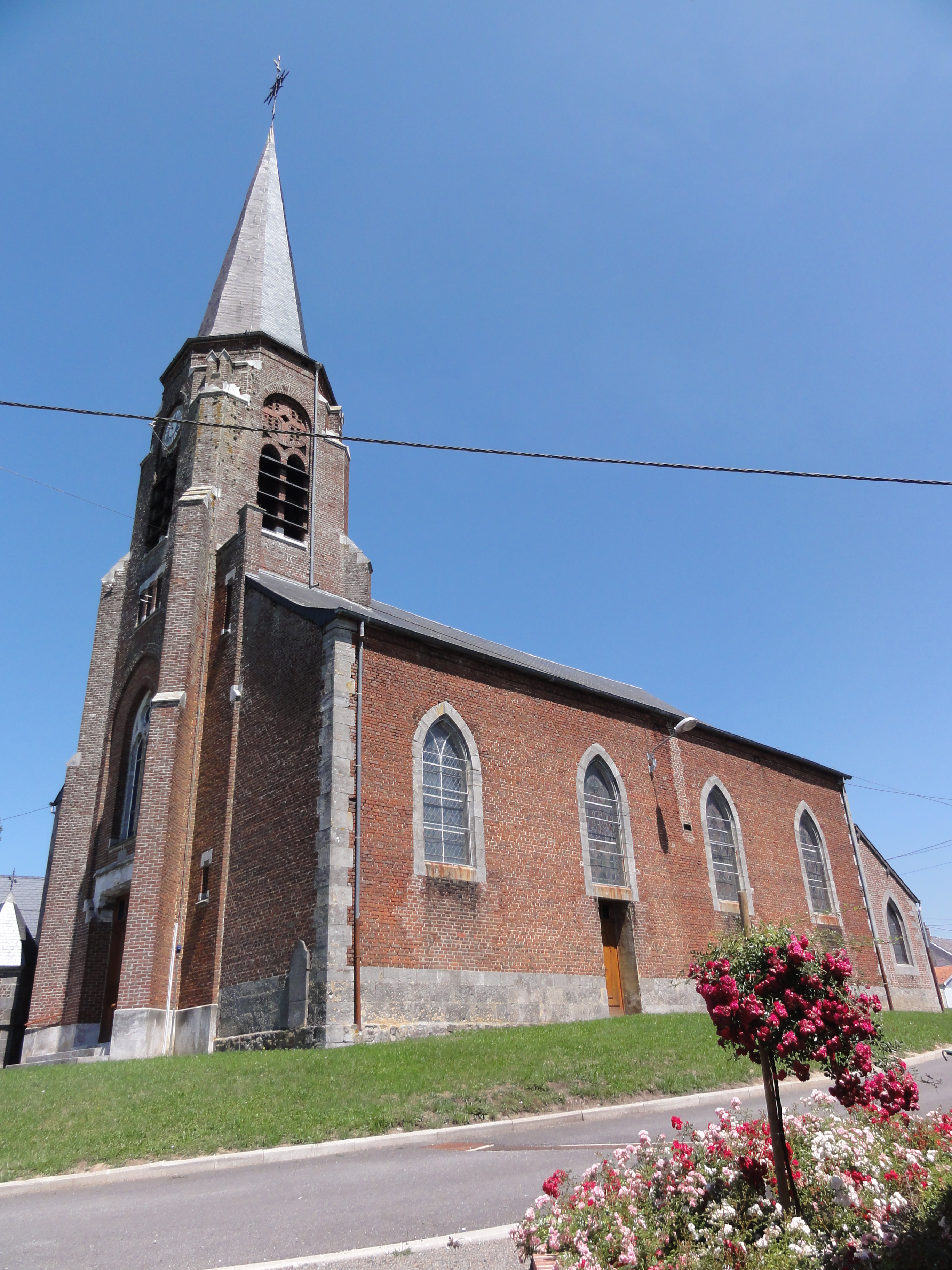 Sémeries (Nord, Fr) église vue latérale .